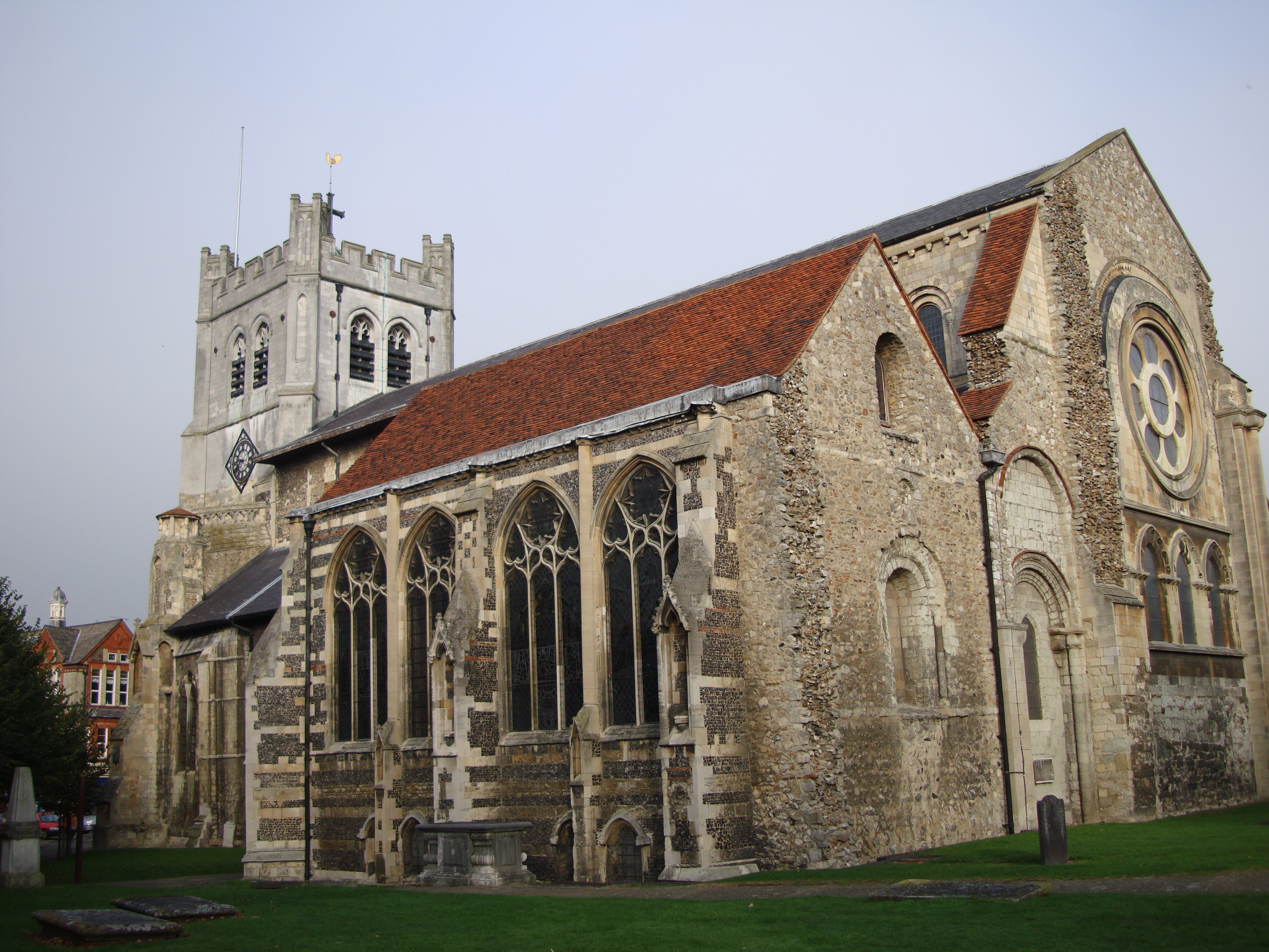 Photograph of Waltham Abbey church, Waltham Abbey, Essex, England, taken and uploaded on King Harold Day, 11 October, 2008